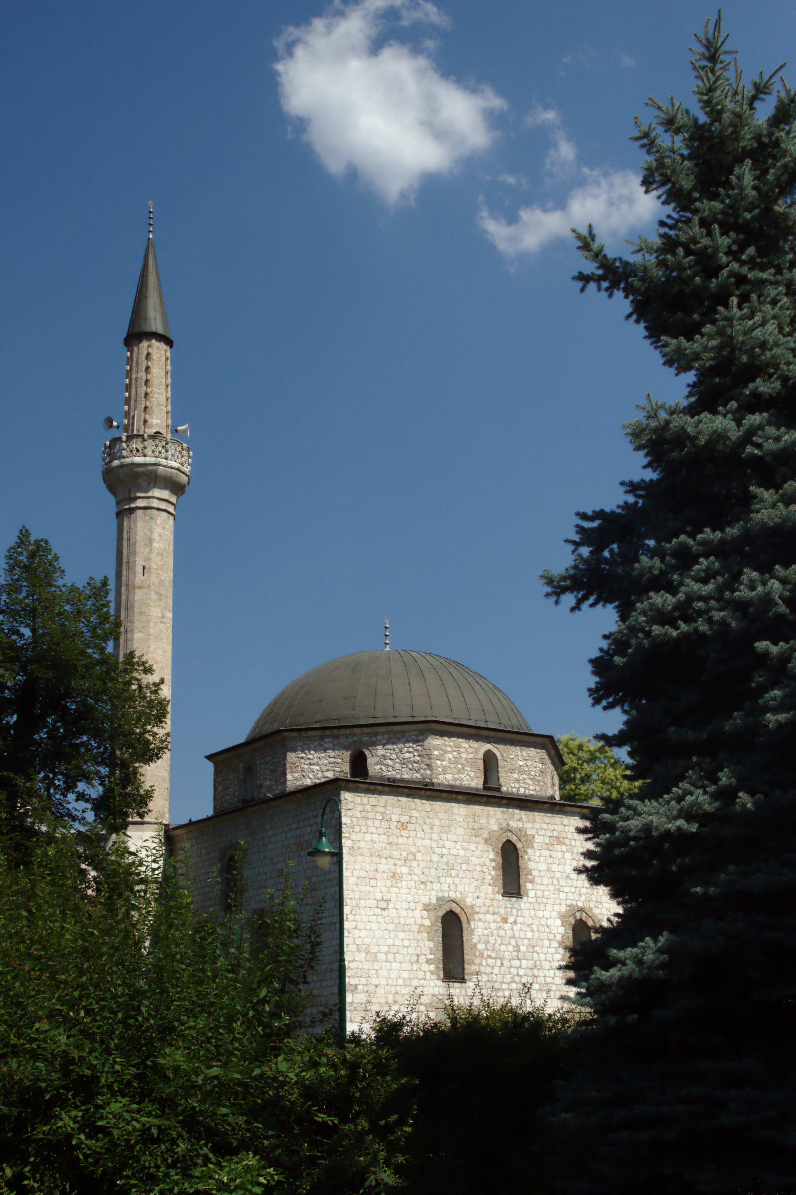 Ali Pasha Mosque located west from the city centre, Sarajevo, BiH